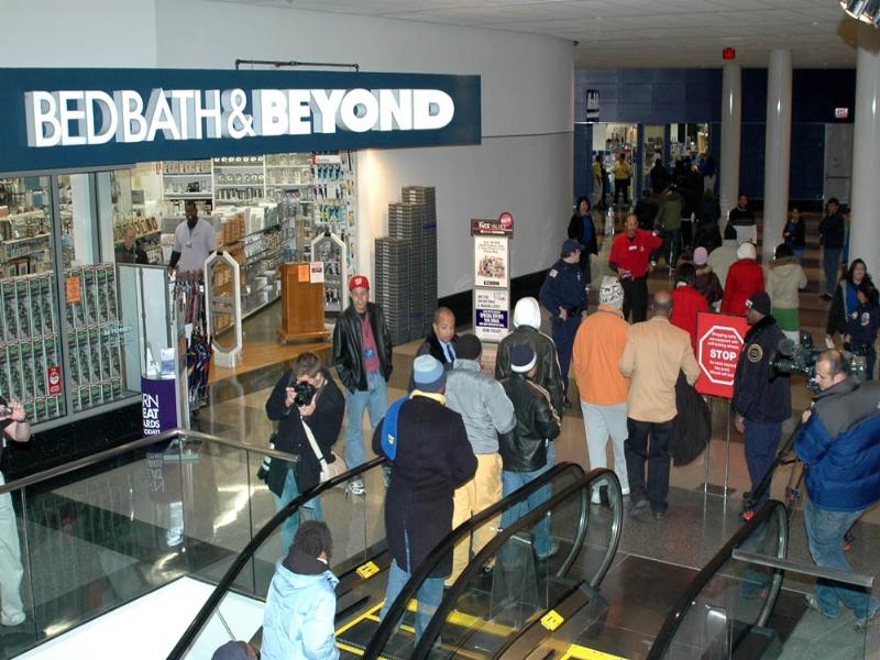 DC USA, Bed Bath & Beyond, Black Friday